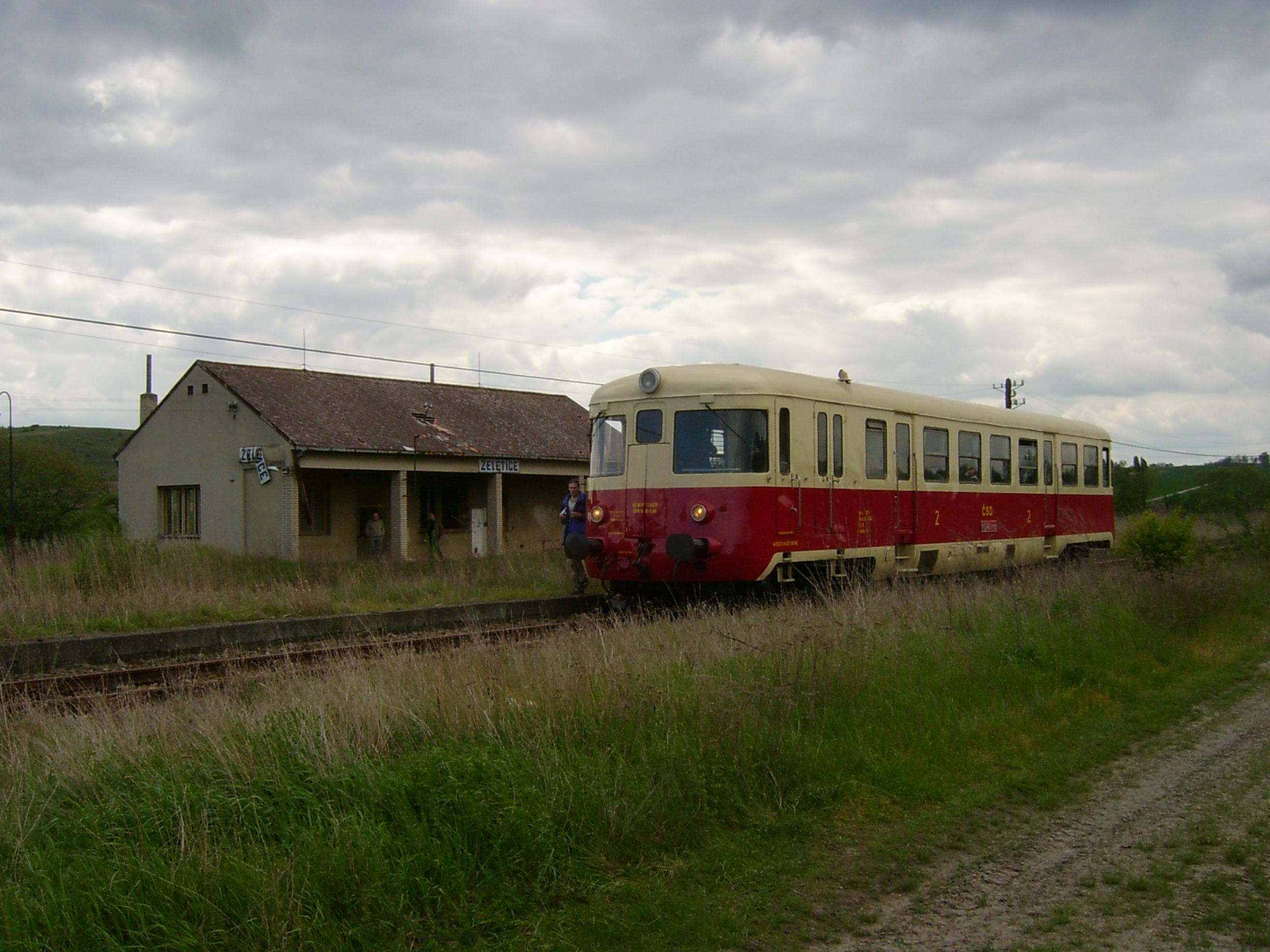 Half-ruined building of train stop in Želetice, Czech Republic on Čejč - Ždánice line. It was serviced by regular passenger trains between 1908 - 1998. Since 1998, the line has been out of use but - due to legal requirements - it was maintained in passable condition by railroad administration until October 2006 when it was officially closed [1]. The picture shows a charter train (diesel railcar M240.0113 made in 1964) on a tour for rail enthusiasts along disused tracks of Southern Moravia.